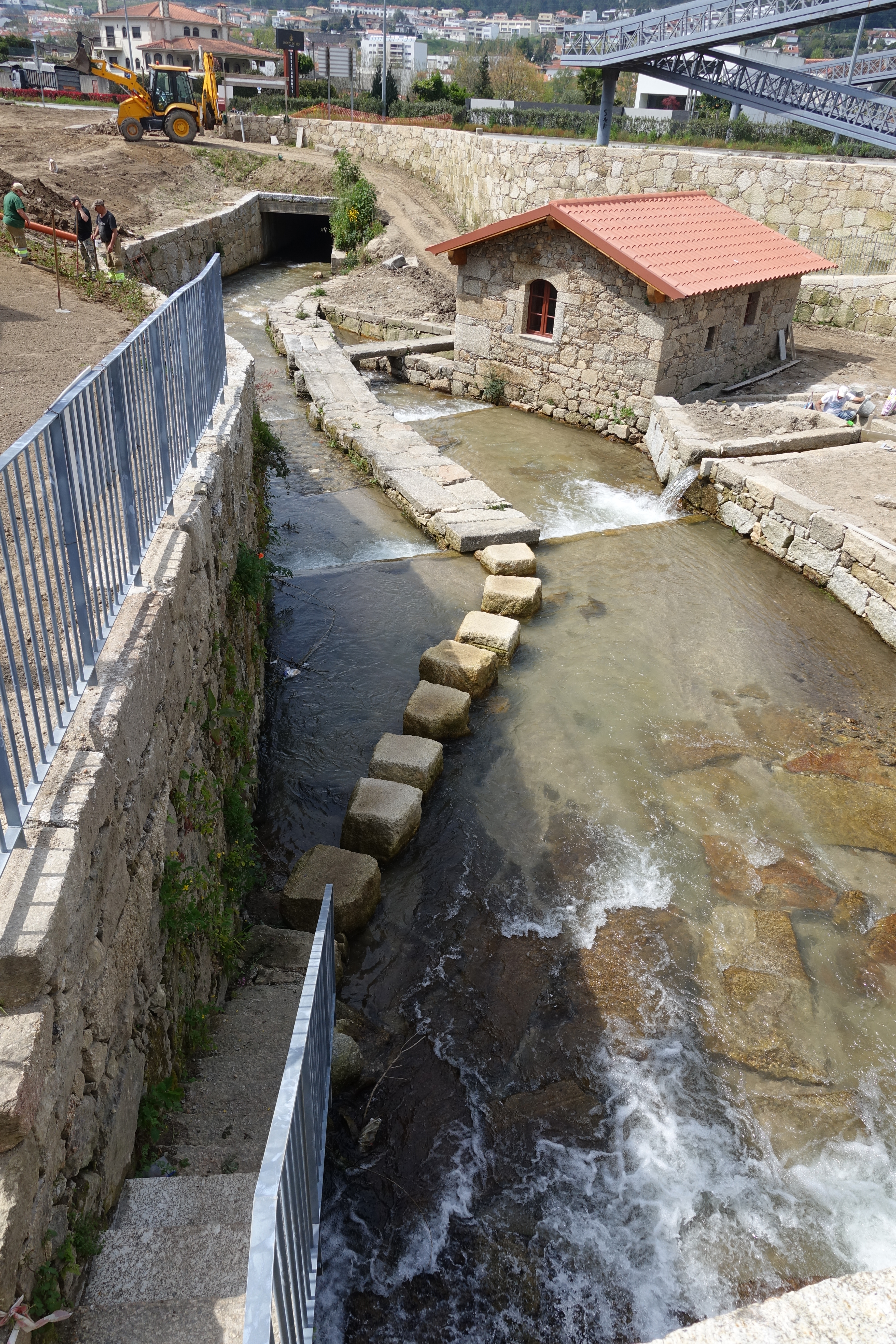 Rio Este (East River) in São Pedro de Este, Braga, Portugal.